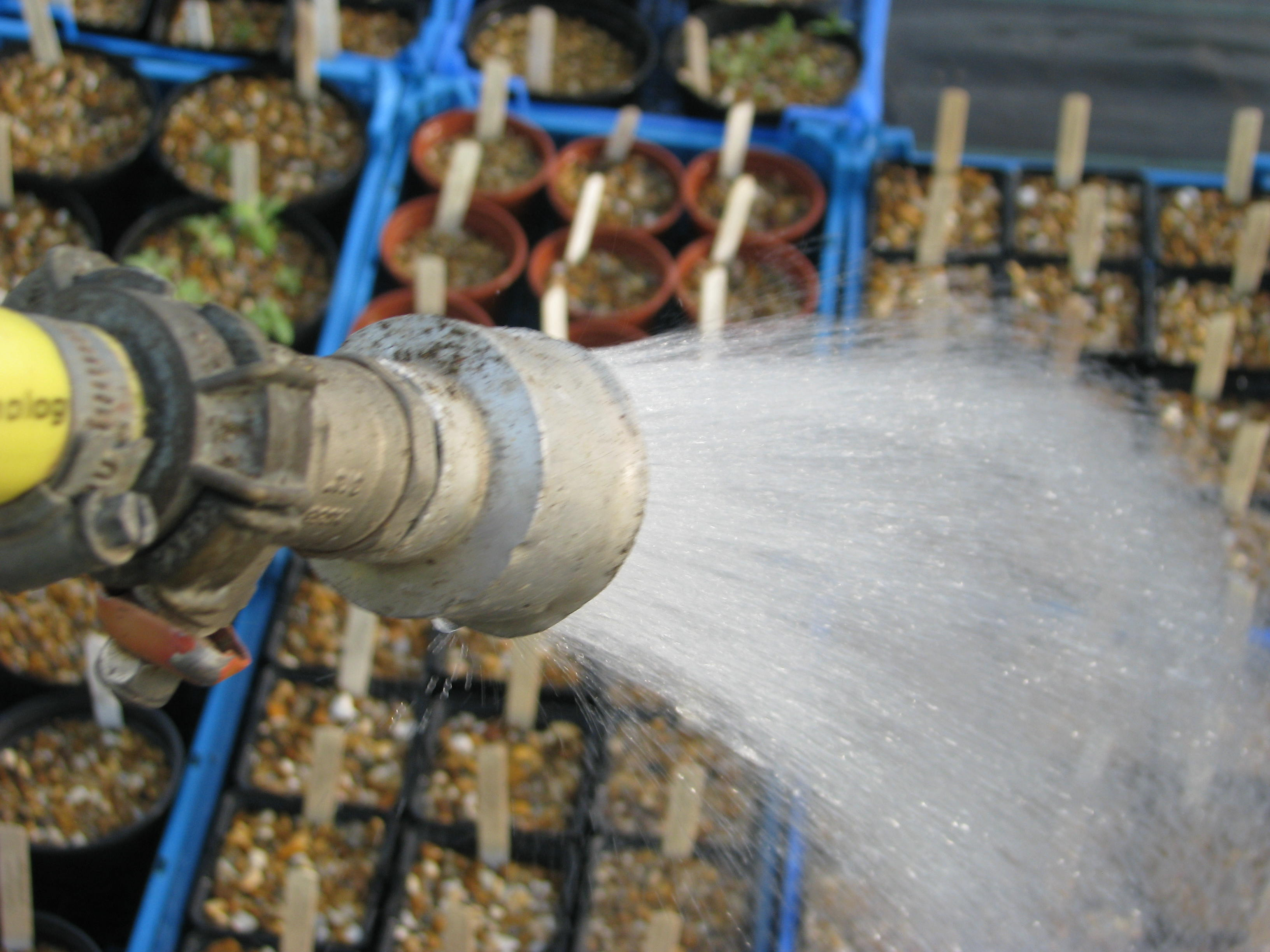 I can soak the seeds with the same hose I use all over the rest of the nursery without washing the seeds out of the pot, so there's almost no chance they will dry out. Plus the grit acts as a mulch so that the surface of the compost doesn't form a crust - especially important with tiny surface-sown seeds. I do keep the hose moving though so the pots don't overflow